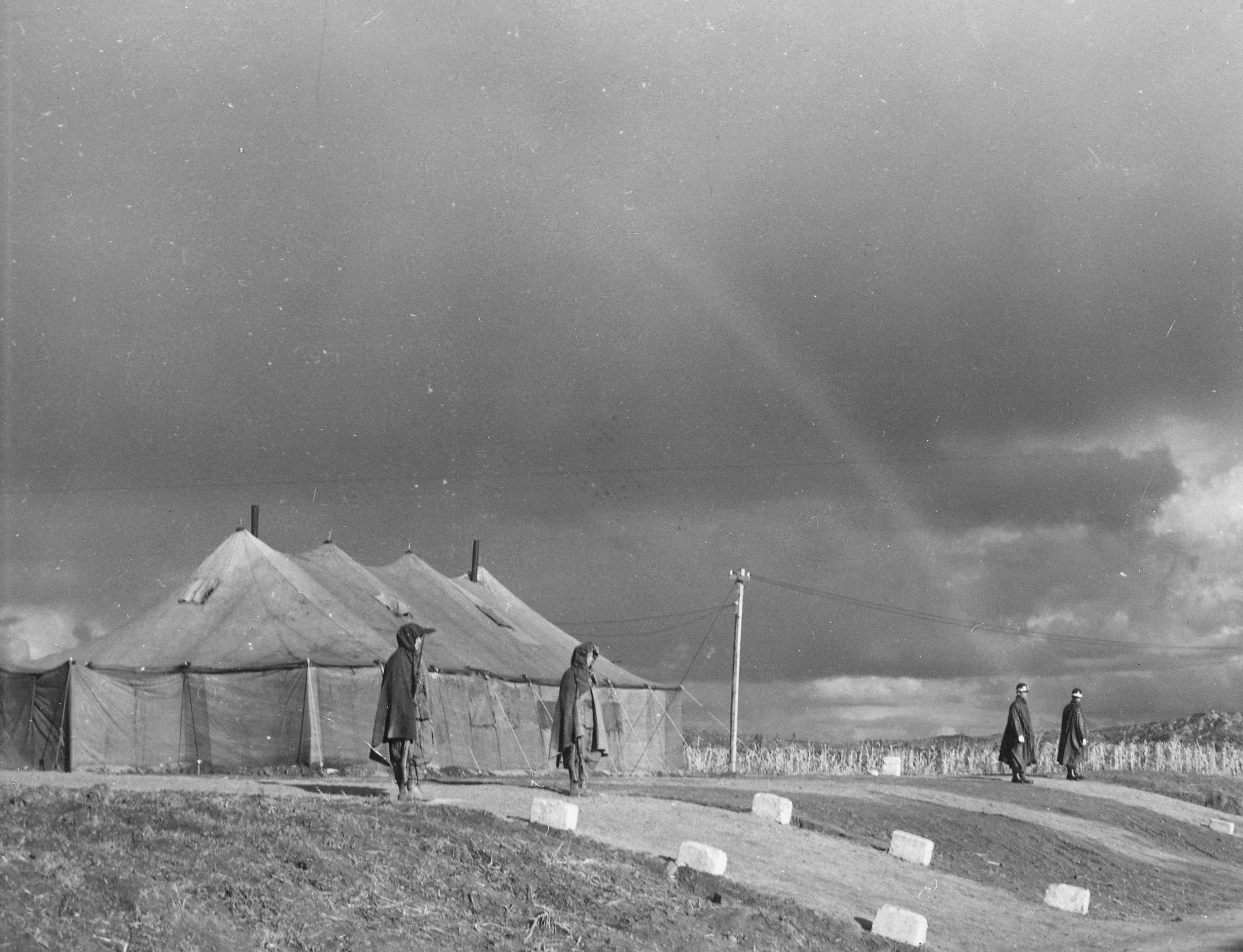 Panmunjom, Korea, the site of military armistice negotiations between representatives of the Communist forces fighting in Korea, and United Nations forces representatives.